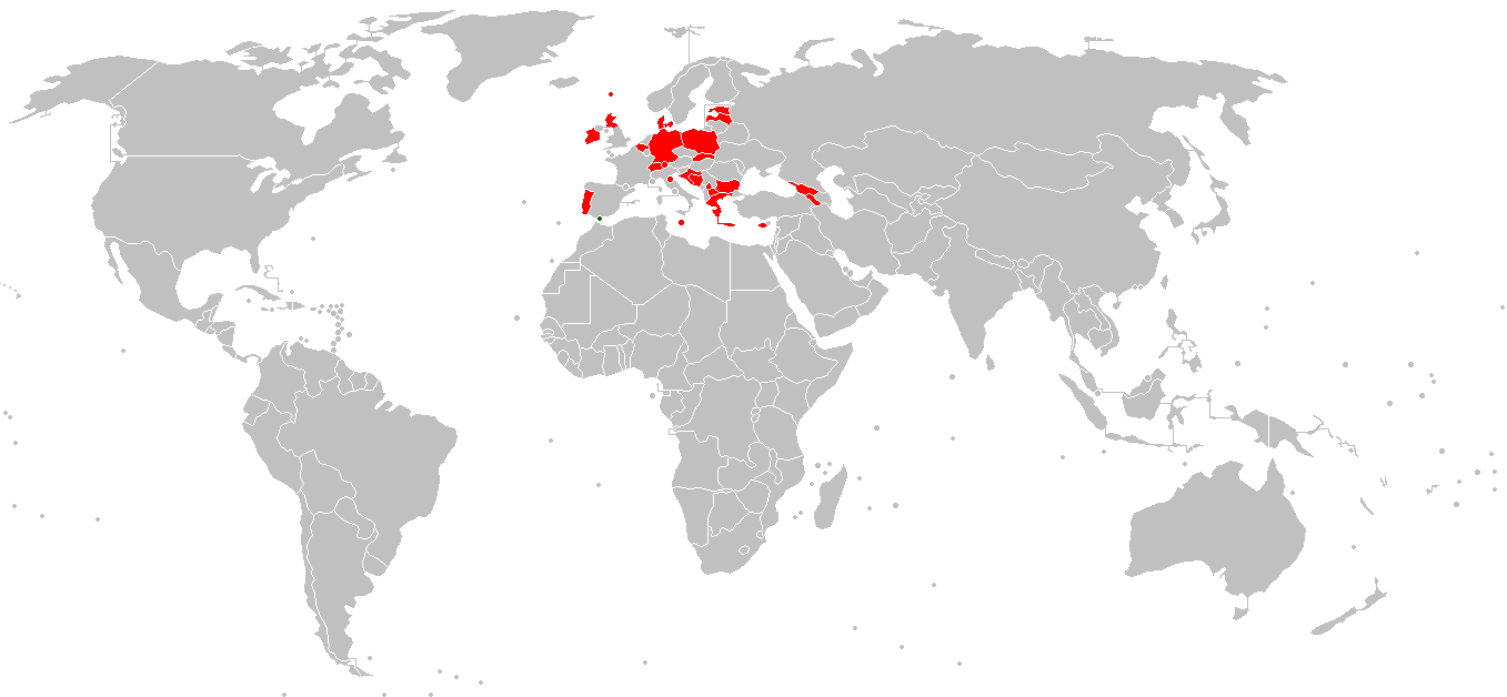 Gibraltar national football team opponents. Only official matches since 2013.